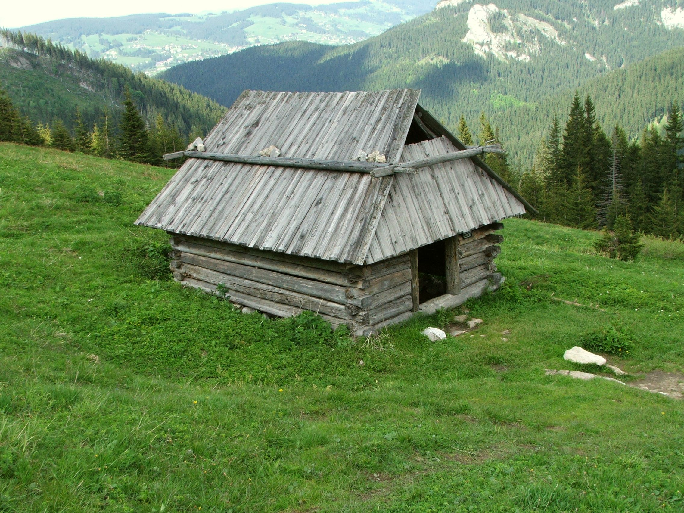 Polana Stoły (Tatra Mountains)